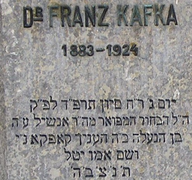 The Hebrew epitaph on Kafka's grave: "Tuesday, Rosh Chodesh Sivan (5)664 Anno Mundi The distinguished young man, our master Rabbi (*a general honorific) Anshel (*Kafka's Jewish name, a Yiddish variant of the Hebrew Asher) peace be upon him son of the exalted honored Rabbi Henich (*again a general honorific and Jewish name of Herman Kafka) may his candle shine and his mother's name was Yetel (*=Julie) may his soul be bound in the bundle of life"